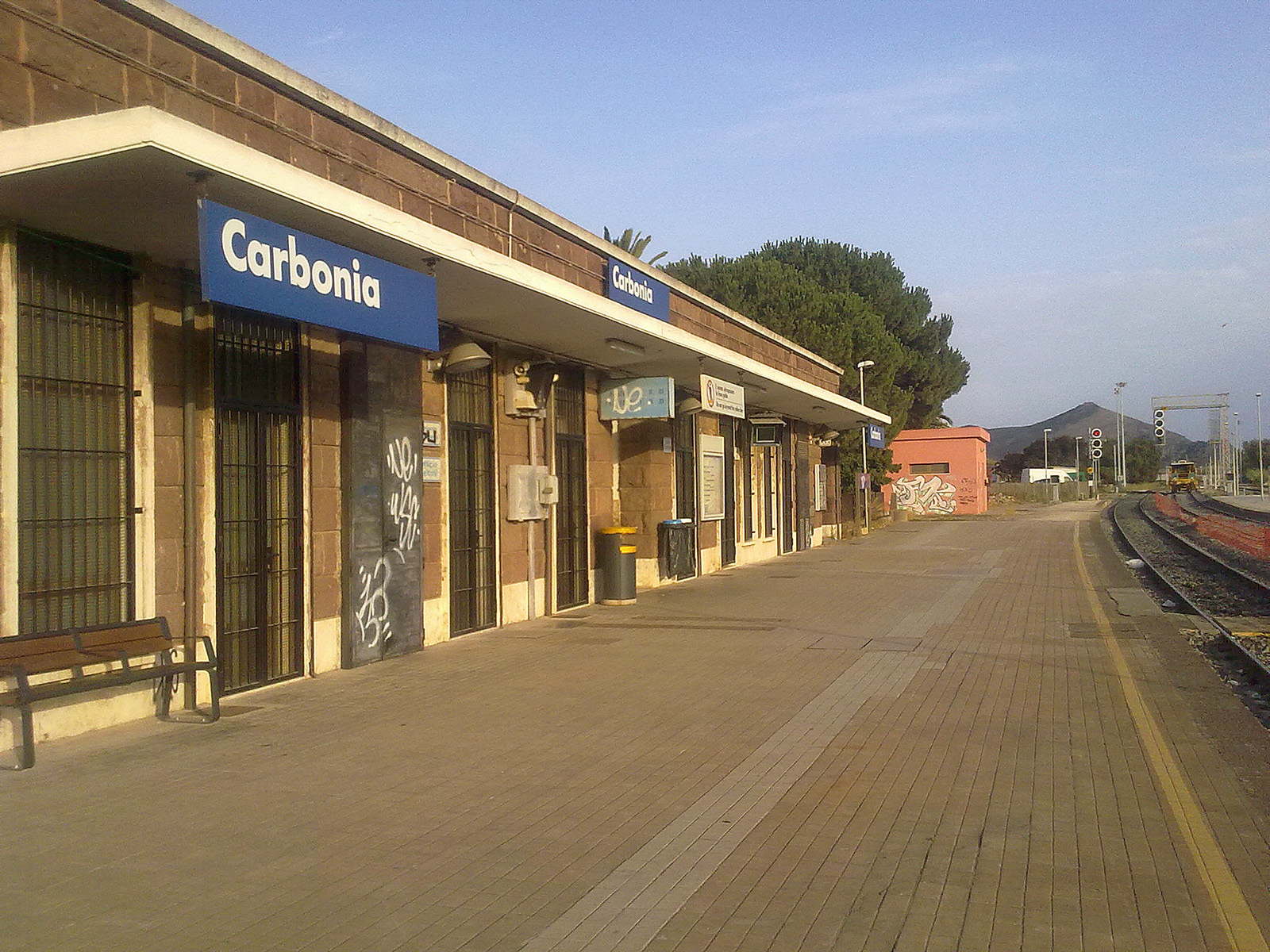 The Carbonia Stato station, in Carbonia, Sardinia, Italy. The photo was taken the day before its closedown for the passenger service, moved to the new Carbonia Serbariu station